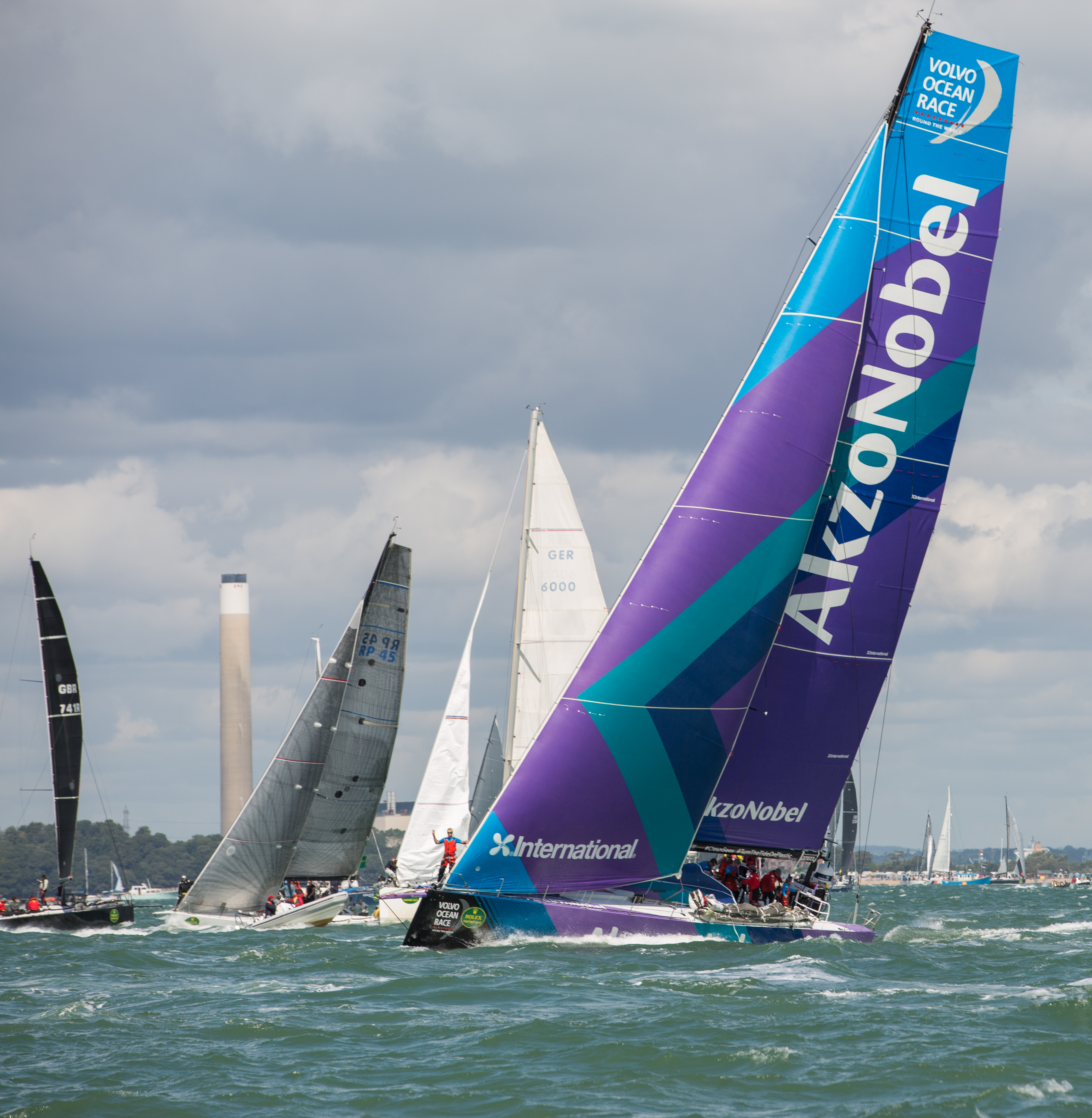 Fastnet weekend 2017-226 Yachts seen racing int he Solent off Cowes, Isle of Wight for the Fastnet 2017 race, held at the end of Cowes Week 2017. Team AkzoNobel is in the foreground.